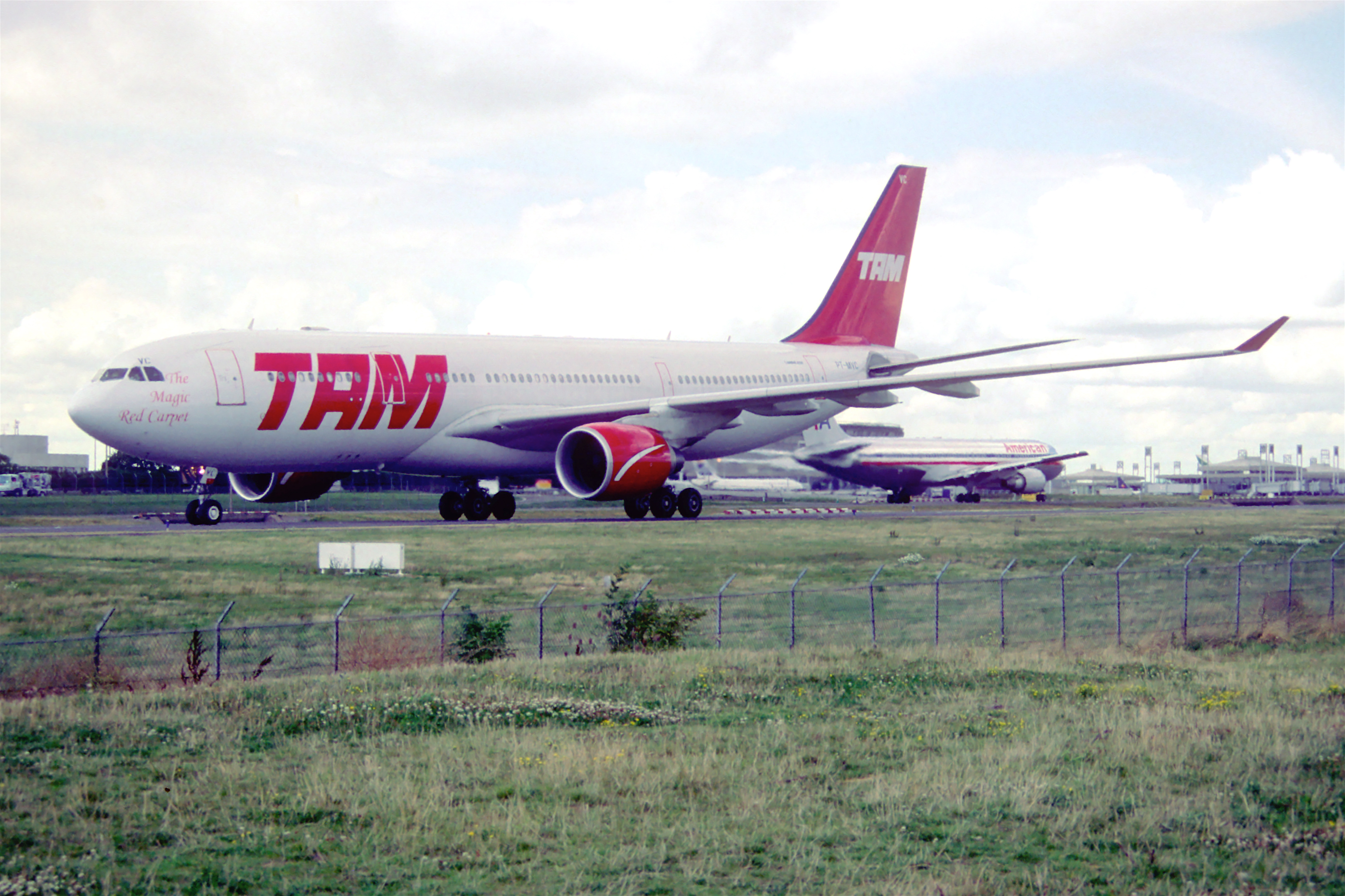 144fq - TAM Airbus A330-223; PT-MVC@CDG;10.08.2001